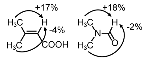 NOE's for 3-methyl-but-2-enoic acid and dimethyl formamide first reported by Anet and Bourne in 1965